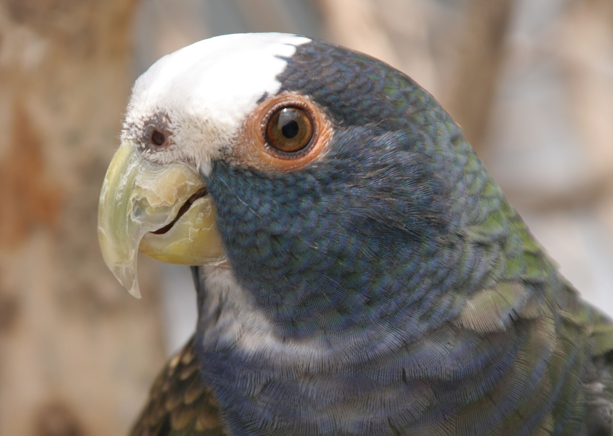 (Pionus Senilis). White-crowned Parrot , Guatemala.